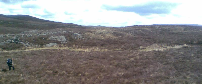 The source of the River Conwy, above Llyn Conwy, North Wales.